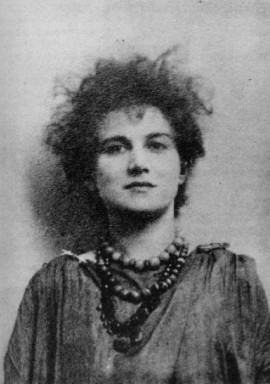 Moina Bergson Mathers (1865–1928)